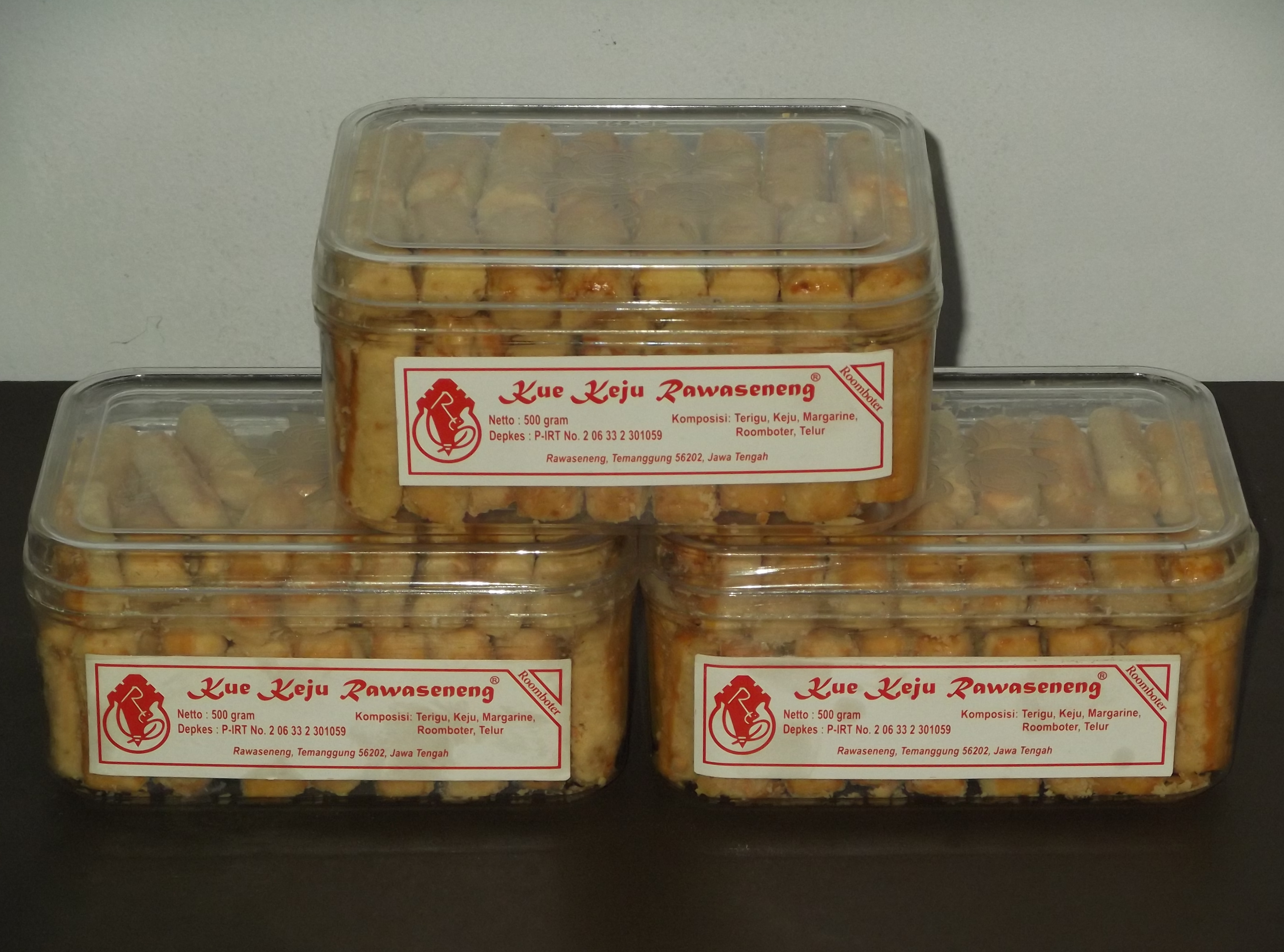 Kastengels ("cheese cookie"), which is sold in the cafeteria of St. Theresia Catholic Church at Jakarta, made by the monks from the Monastery of Saint Mary Rawaseneng in Kandangan, Temanggung.